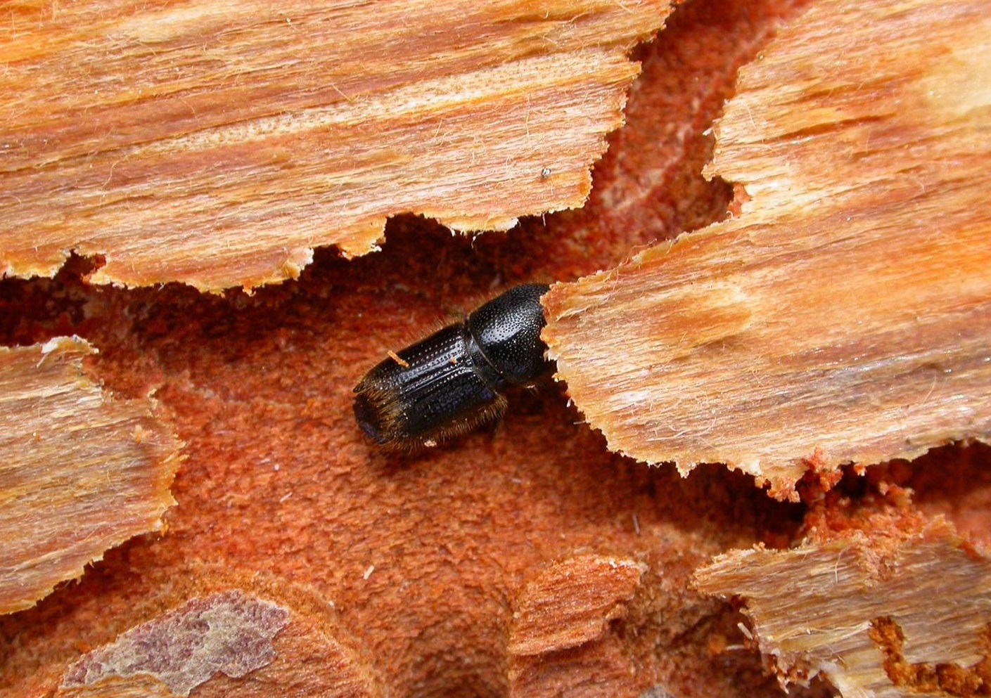 Ips sexdentatus in gallery, Italy